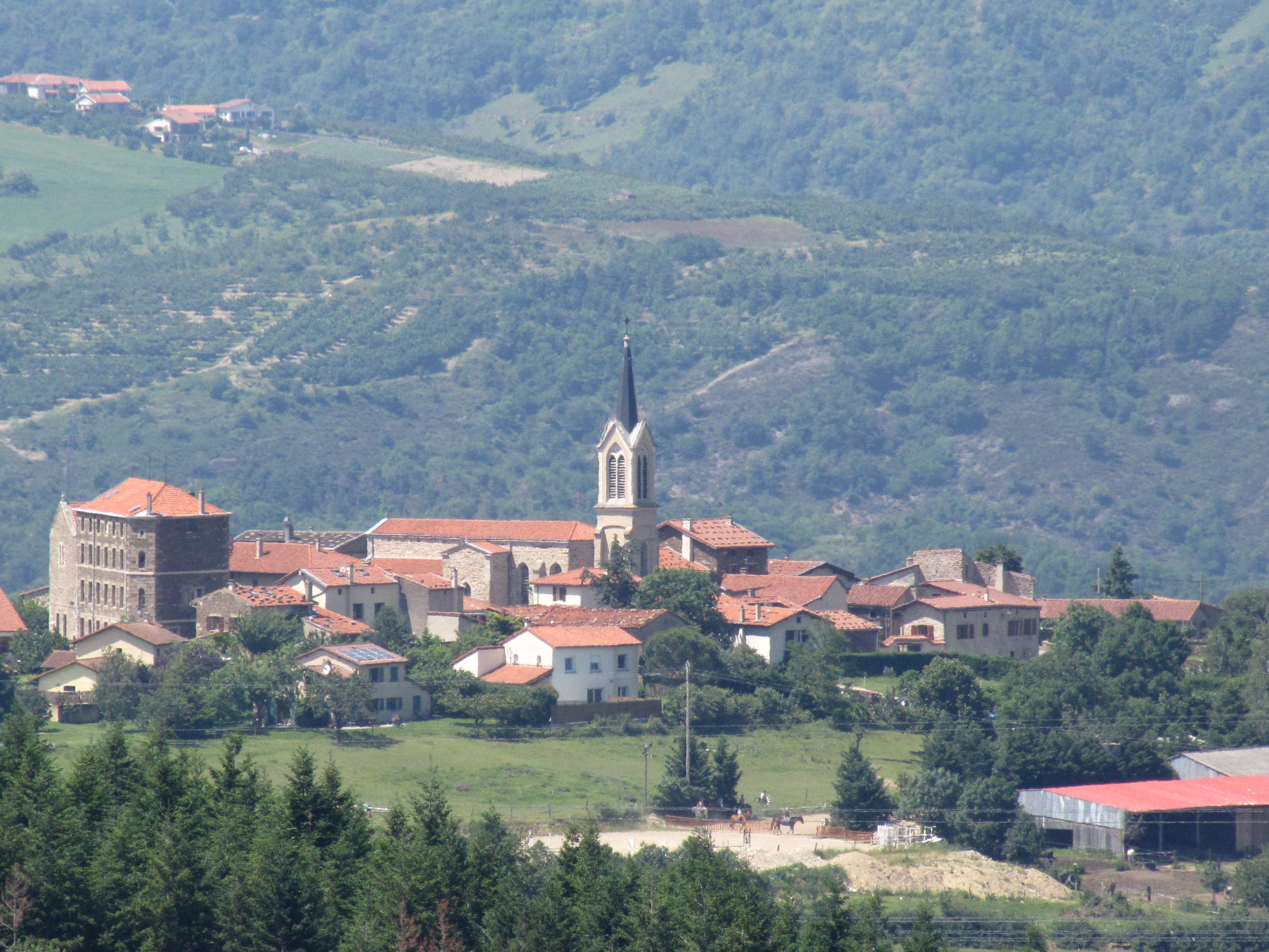 Farnay, as seen from south